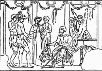 Theater actors mosaic (from Pompeii)